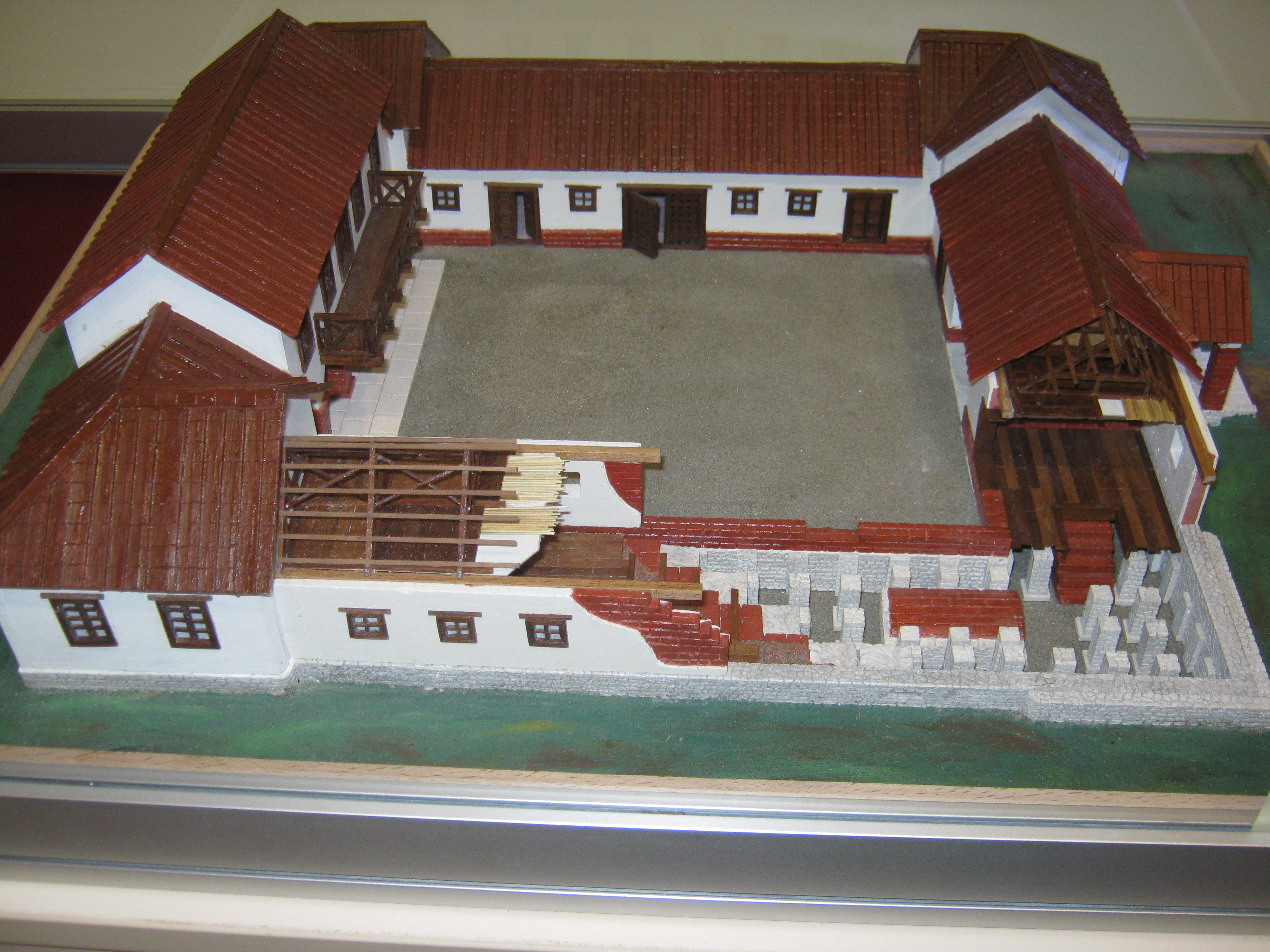 Roman Villa Rustica Model. Found a few remnants of these villas in the vicinity of Valjevo.